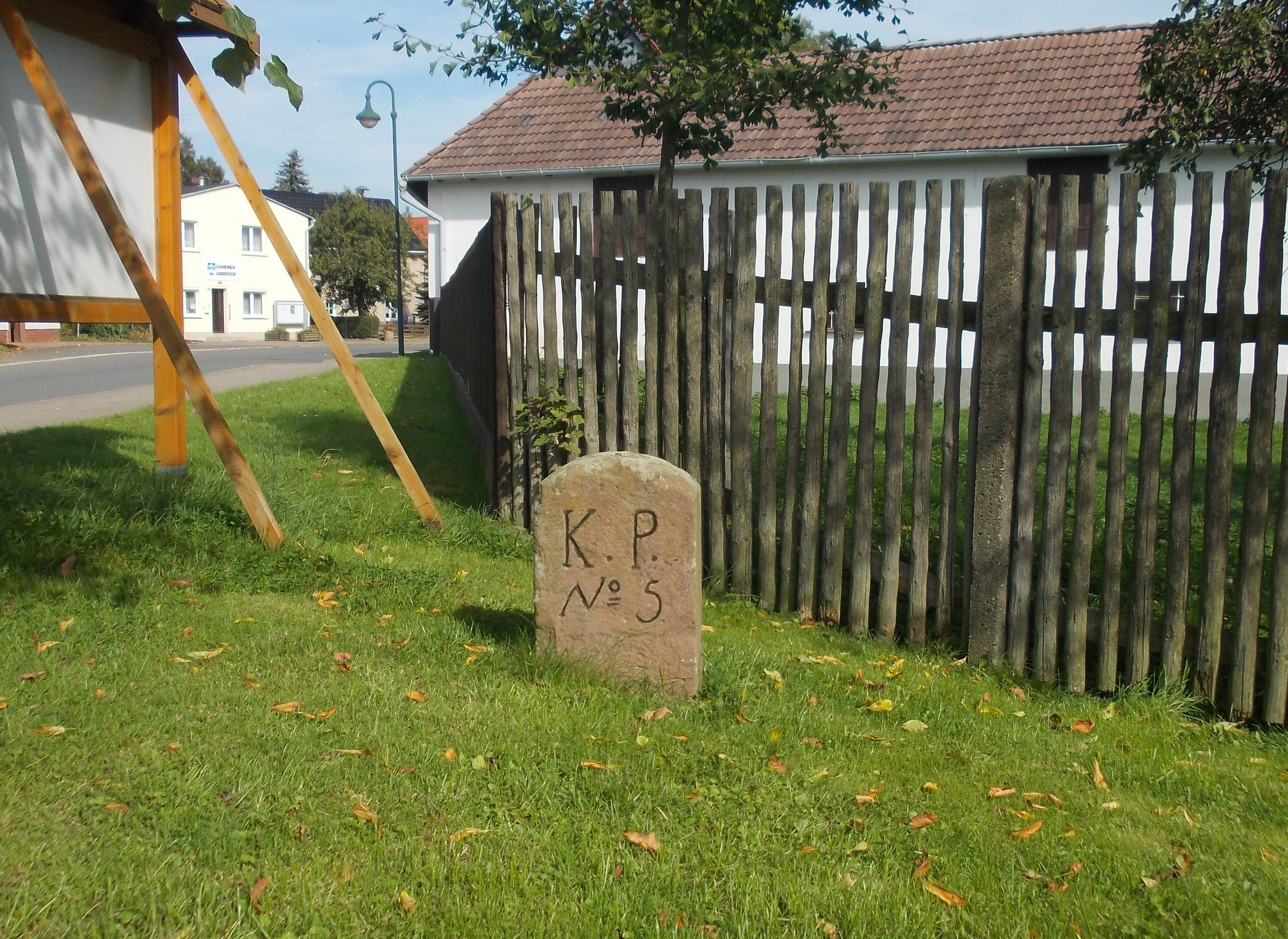 Boundary stone on the former border between Prussia and Anhalt, between the villages of Abberode and Tilkerode (Mansfeld, Mansfeld-Südharz district, Saxony-Anhalt)